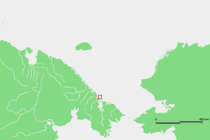 location map